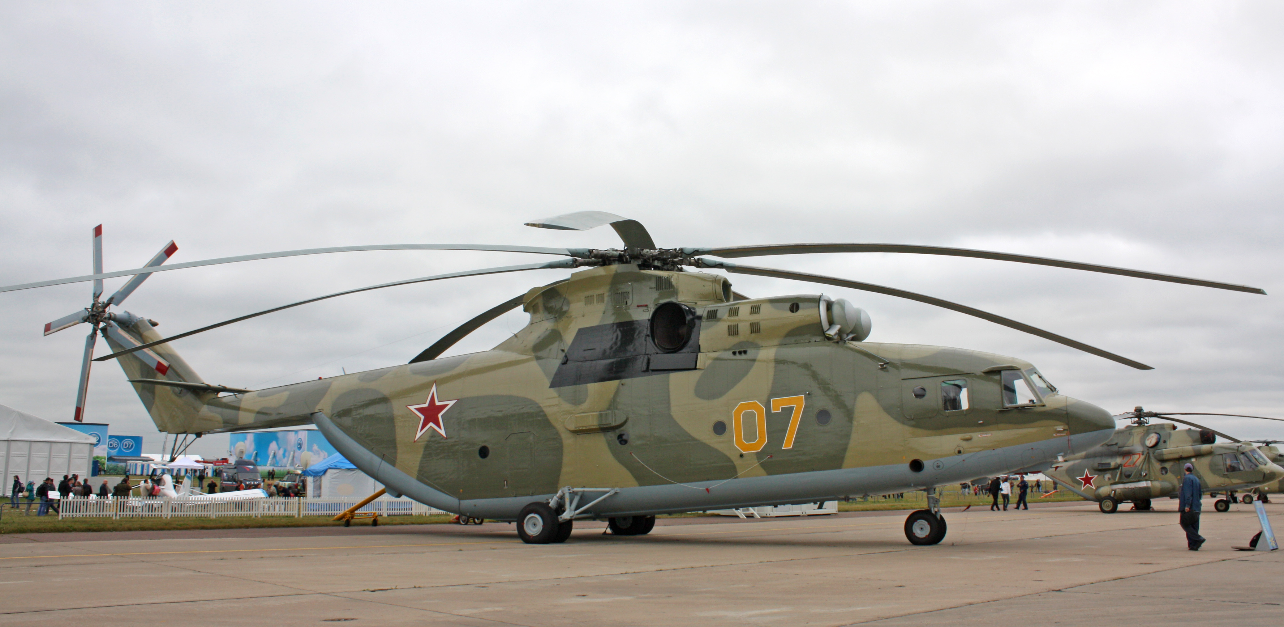 Mil Mi-26 (The international aerospace salon MAKS-2009)